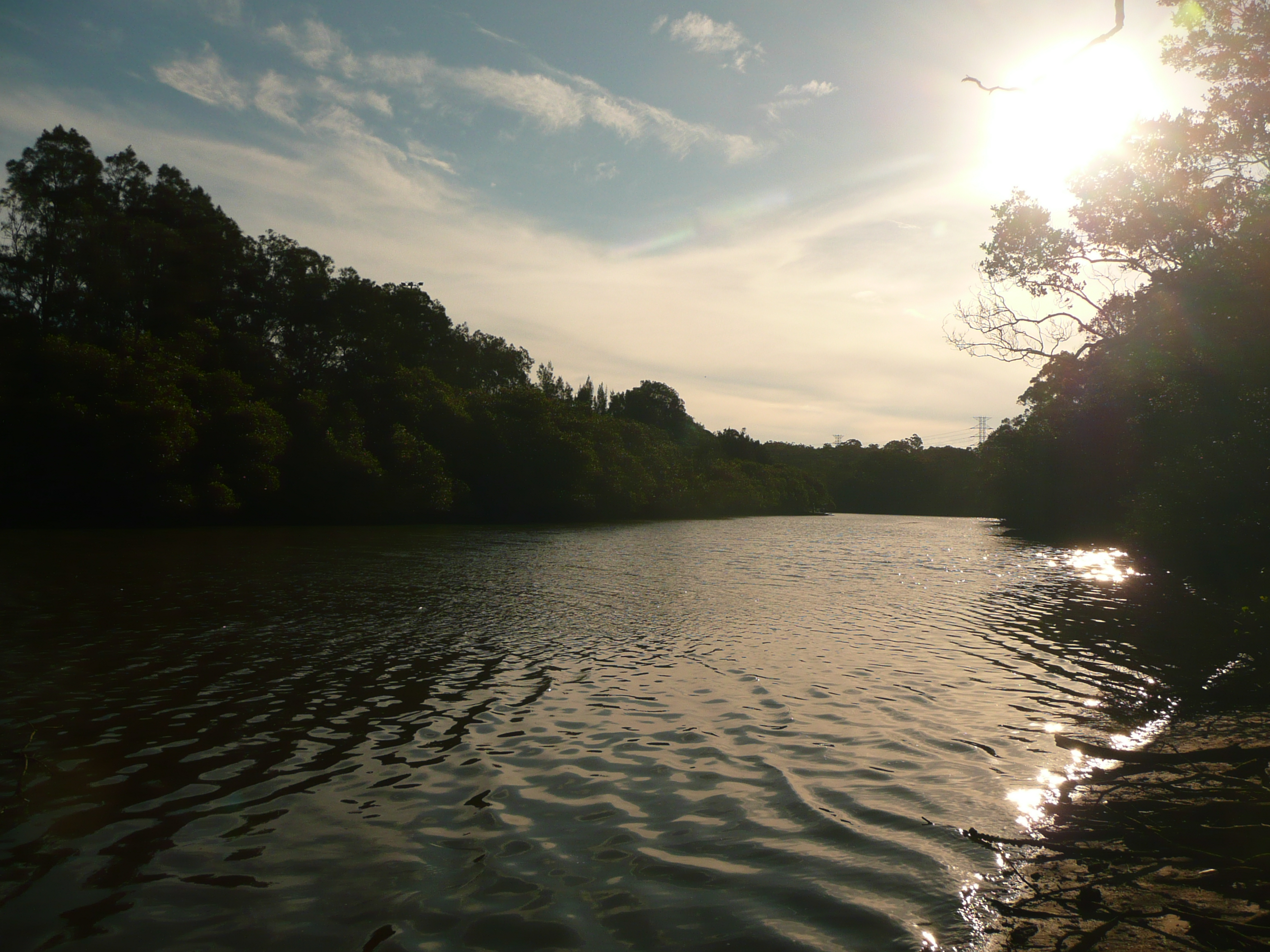 Looking downstream from vicinity of Fairyland, Lane Cove River, Sydney